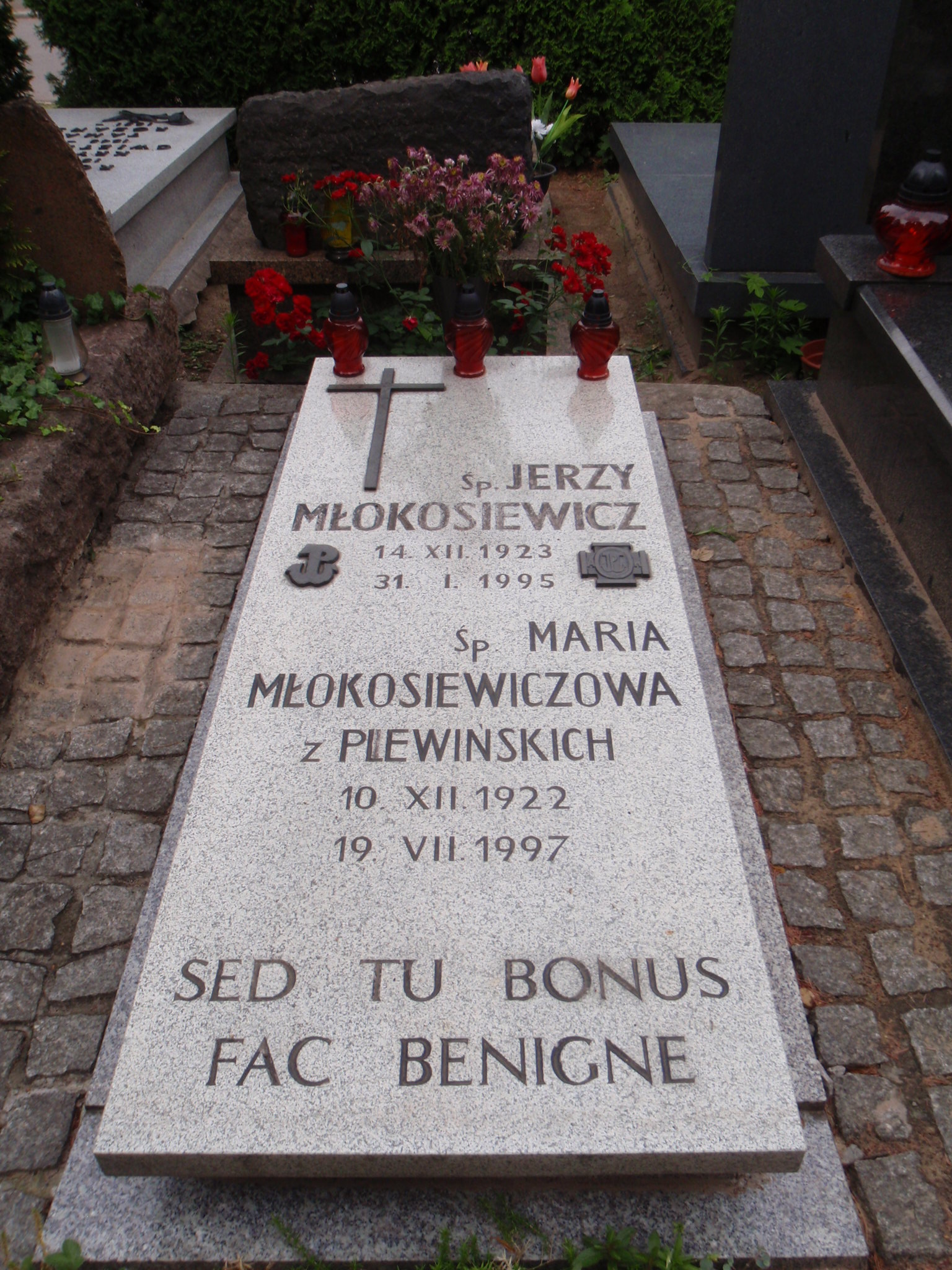 Grave of Jerzy Młokosiewicz